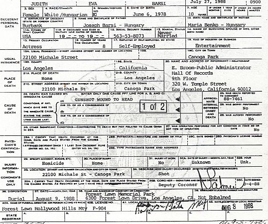 The death certificate of Judith Barsi (1978-1988).